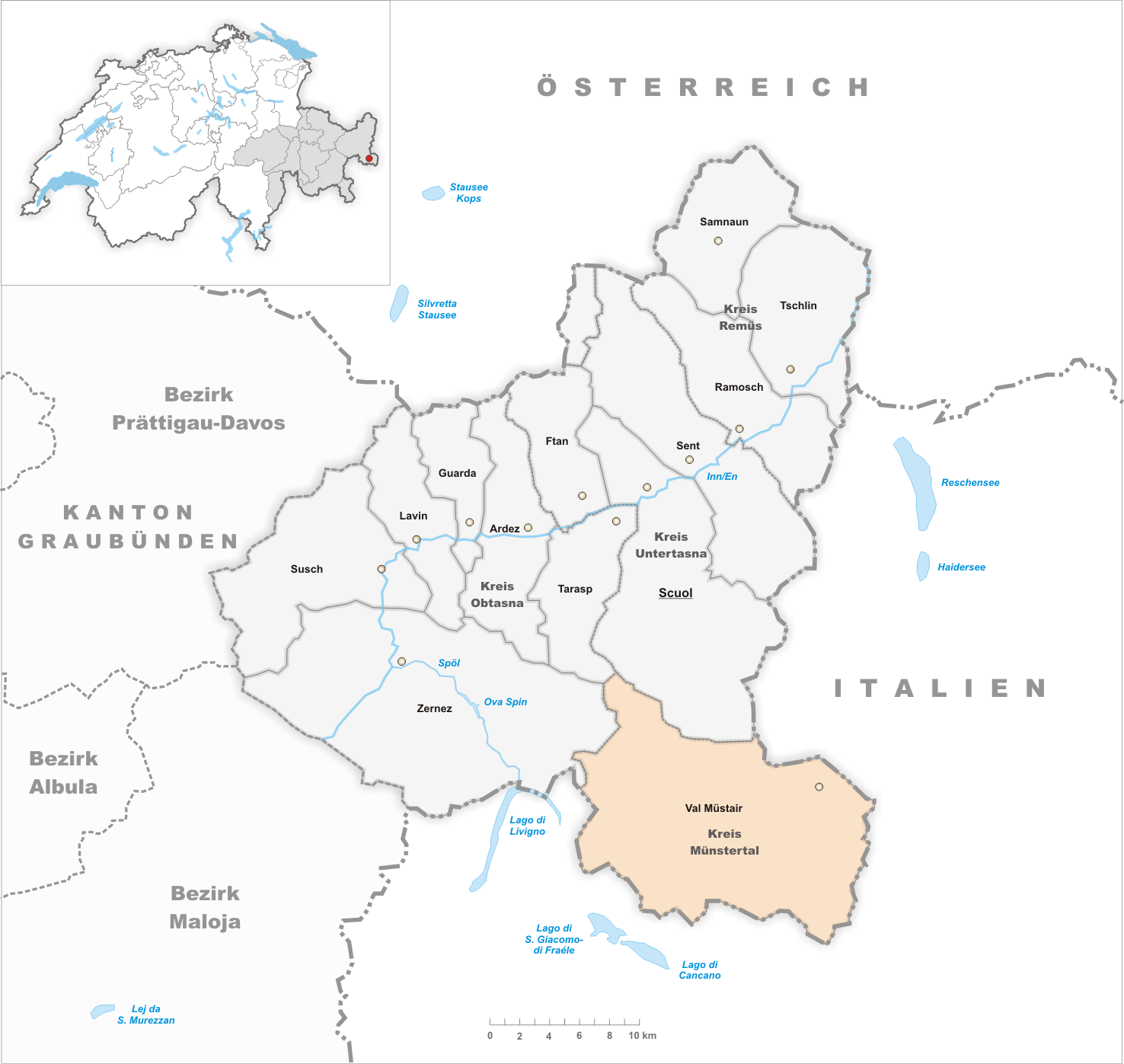 Municipality Val Müstair